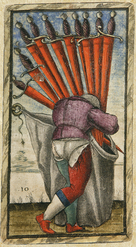 The 10 of Swords card in the Sola-Busca tarot desk (1998 Wolfgang Mayer reprint)